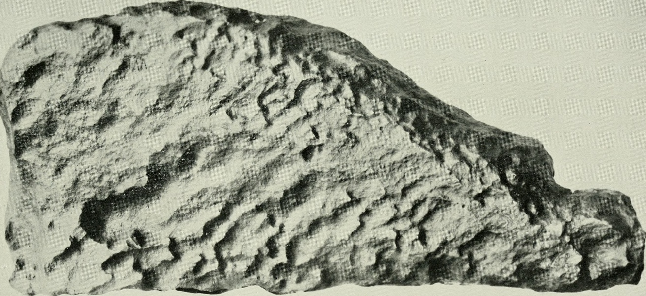 Title: The American Museum journal Year: c1900-(1918) (c190s) Authors: American Museum of Natural History Subjects: Natural history Publisher: New York : American Museum of Natural History Text Appearing Before Image: ' Text Appearing After Image: M ^S UJ -— _C2 2 3 "S *C/2 .2 • ^ +^ o "S s Si CO '3 'o (U _^ -C X _r2 9 bC 3 c3 O ^ 73 ^ C3 +J H t3 btj 0) a te i= .5 IK t/3 +i '^s